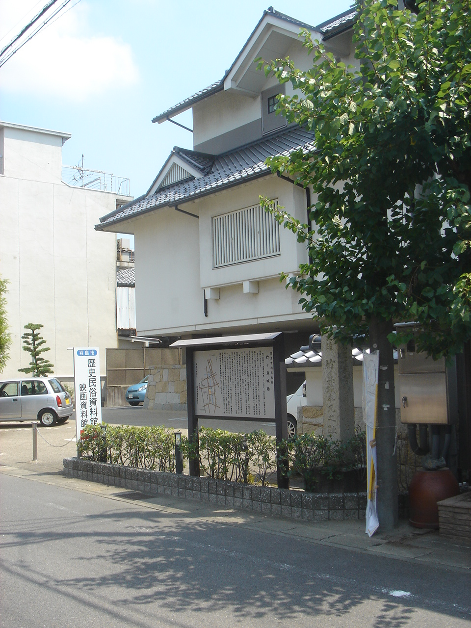 Museum of History and Customs in Hashima city（羽島市歴史民俗資料館・羽島市映画資料館前にあるw:ja:竹ヶ鼻城跡の石碑）,Hashima,Gifu,Japan(岐阜県羽島市)で撮影。